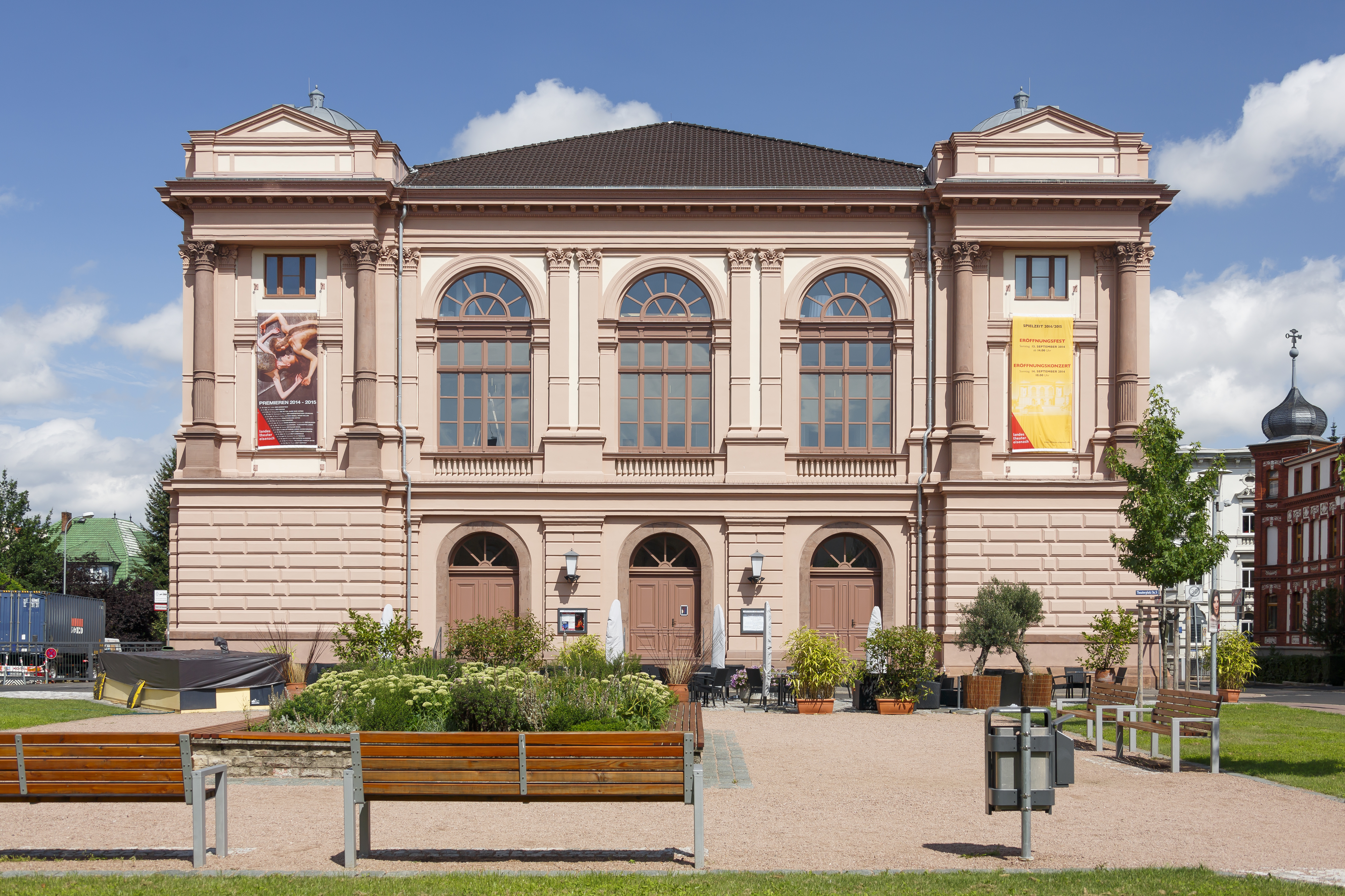 Eisenach, Germany: Landestheater Eisenach (Theater of the federal state of Thüringen)